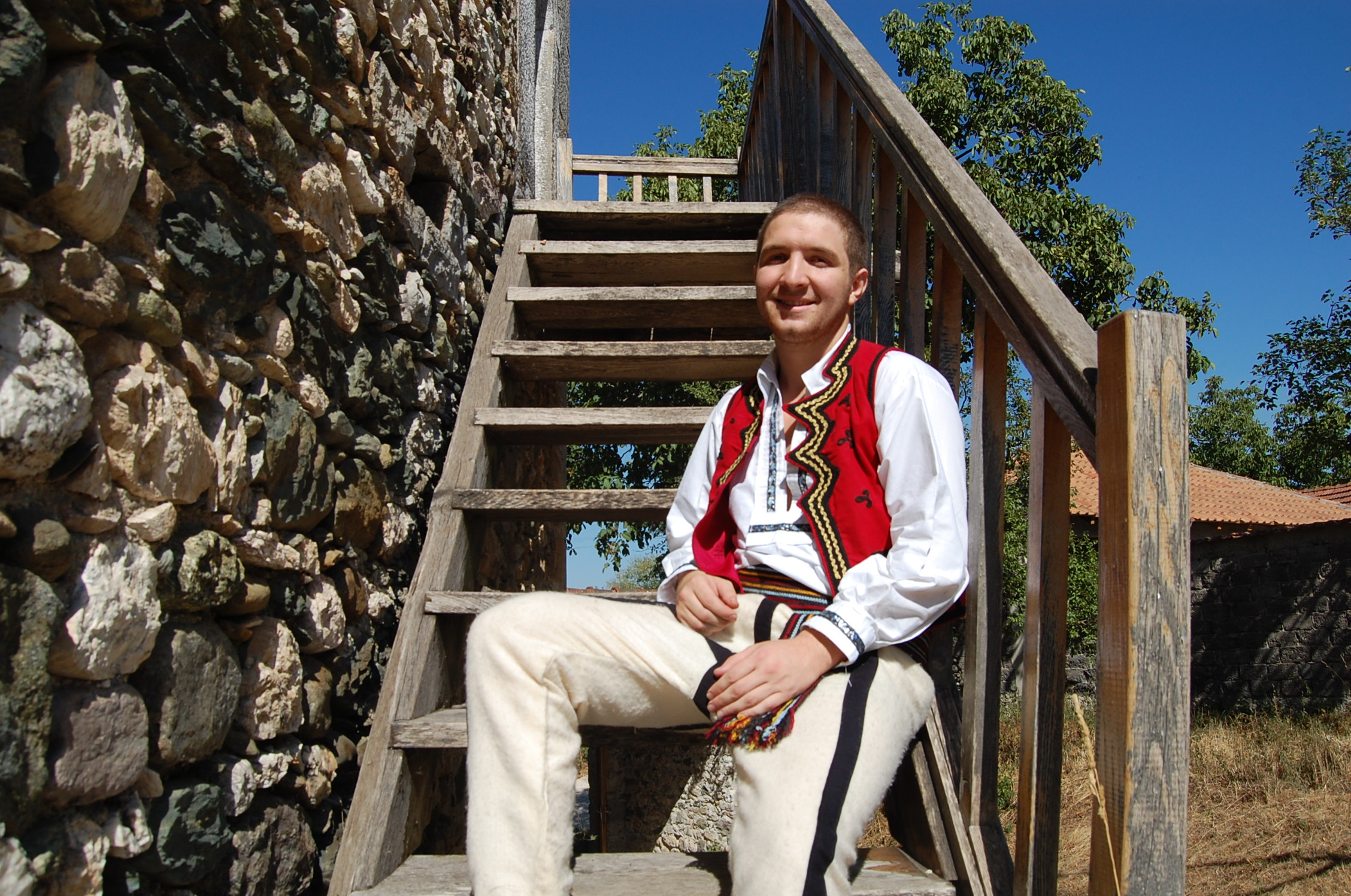 Kulla ne Dranoc te Decanit